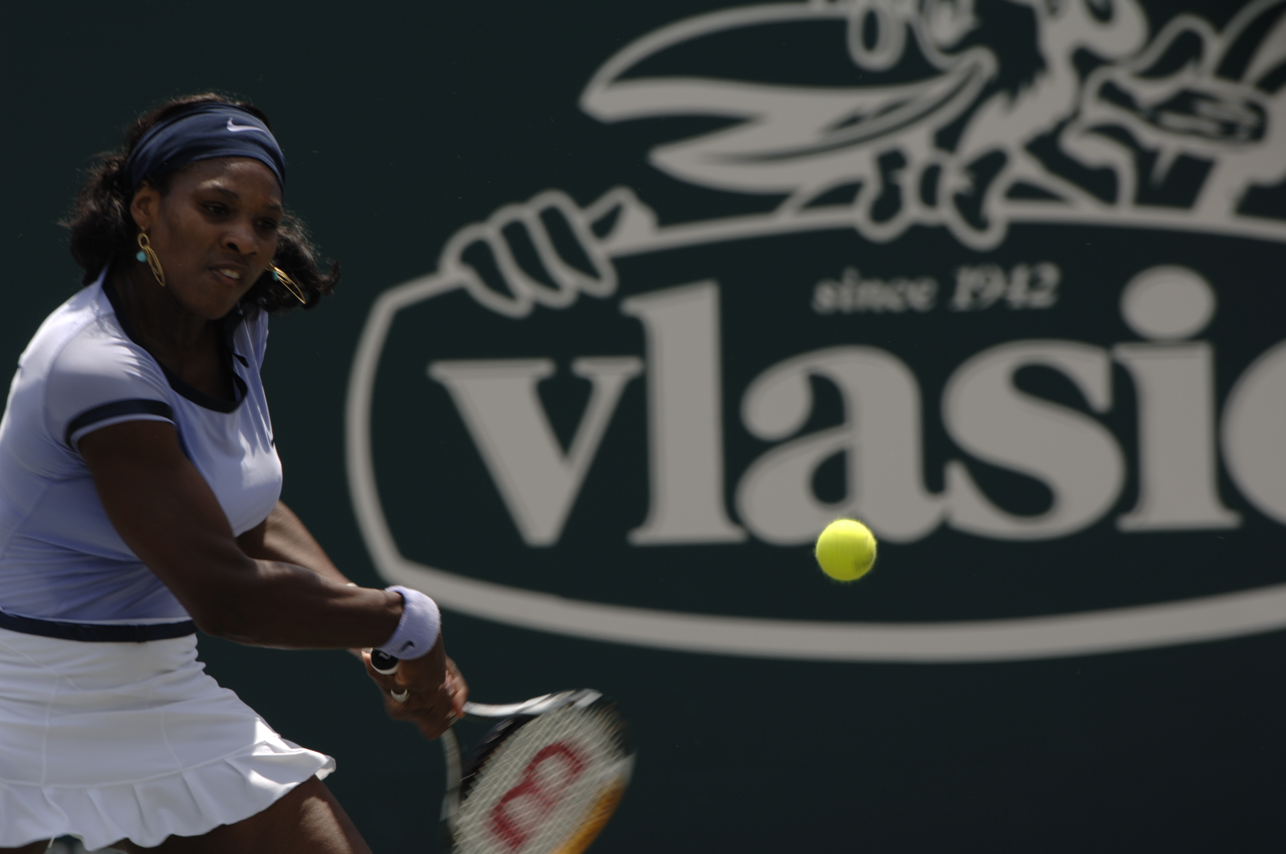 Serena Williams during the Family Circle Cup 2008.